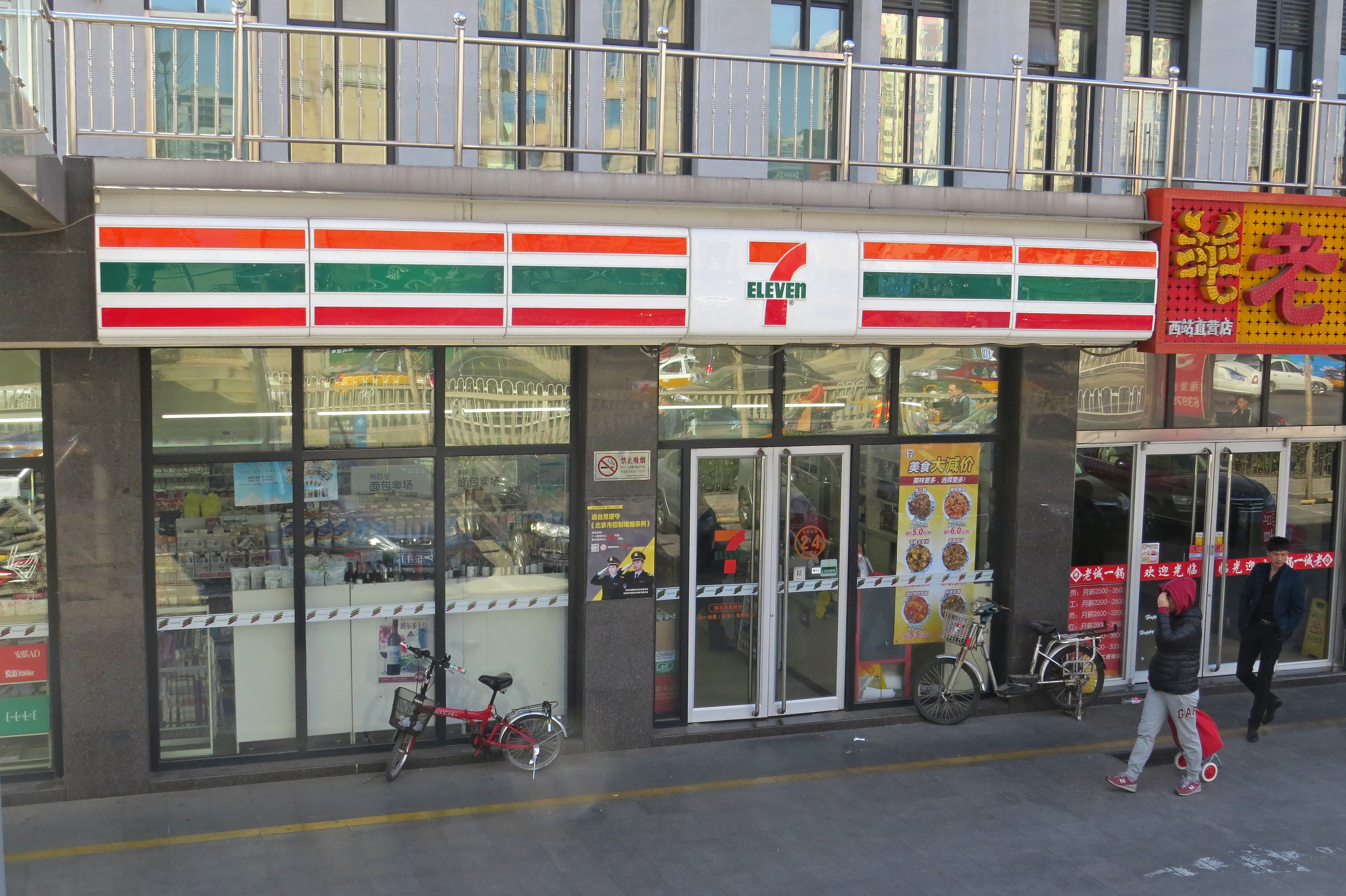 The nearest to Beijing West Railway Station? After all, a nice replenishment place for spotters at Huichengmen.